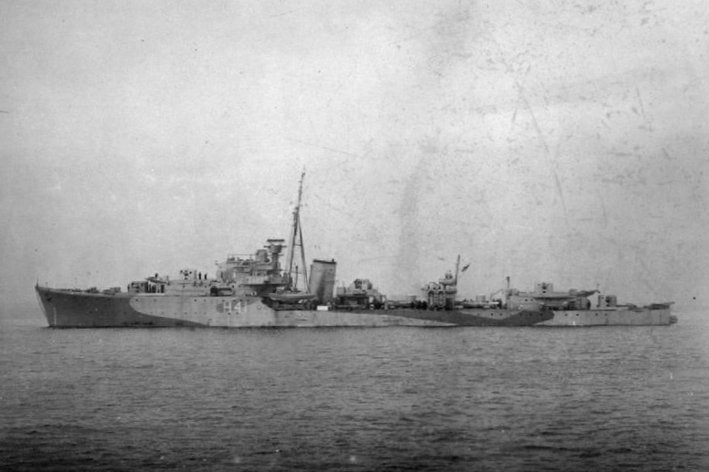 Photograph of British destroyer HMS Redoubt (H41).